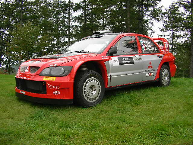 Mitsubishi Lancer WRC'04.